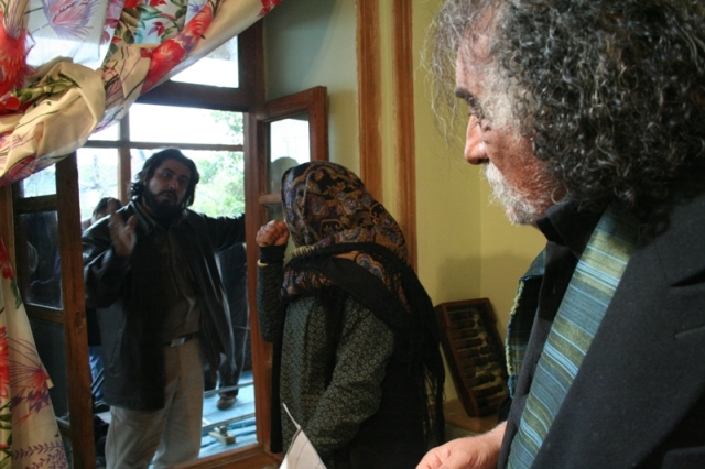 Behind the Scenes series, empty frames Photo: hoseinshams